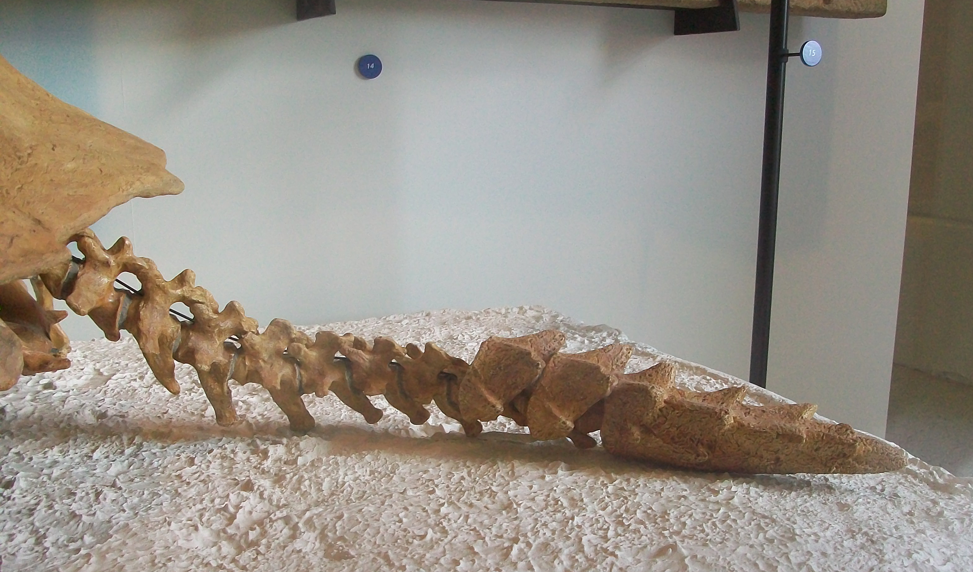 The tail of Meiolania platyceps, part of a cast of a skeleton (specimen AMNH 29076) in the American Museum of Natural History.